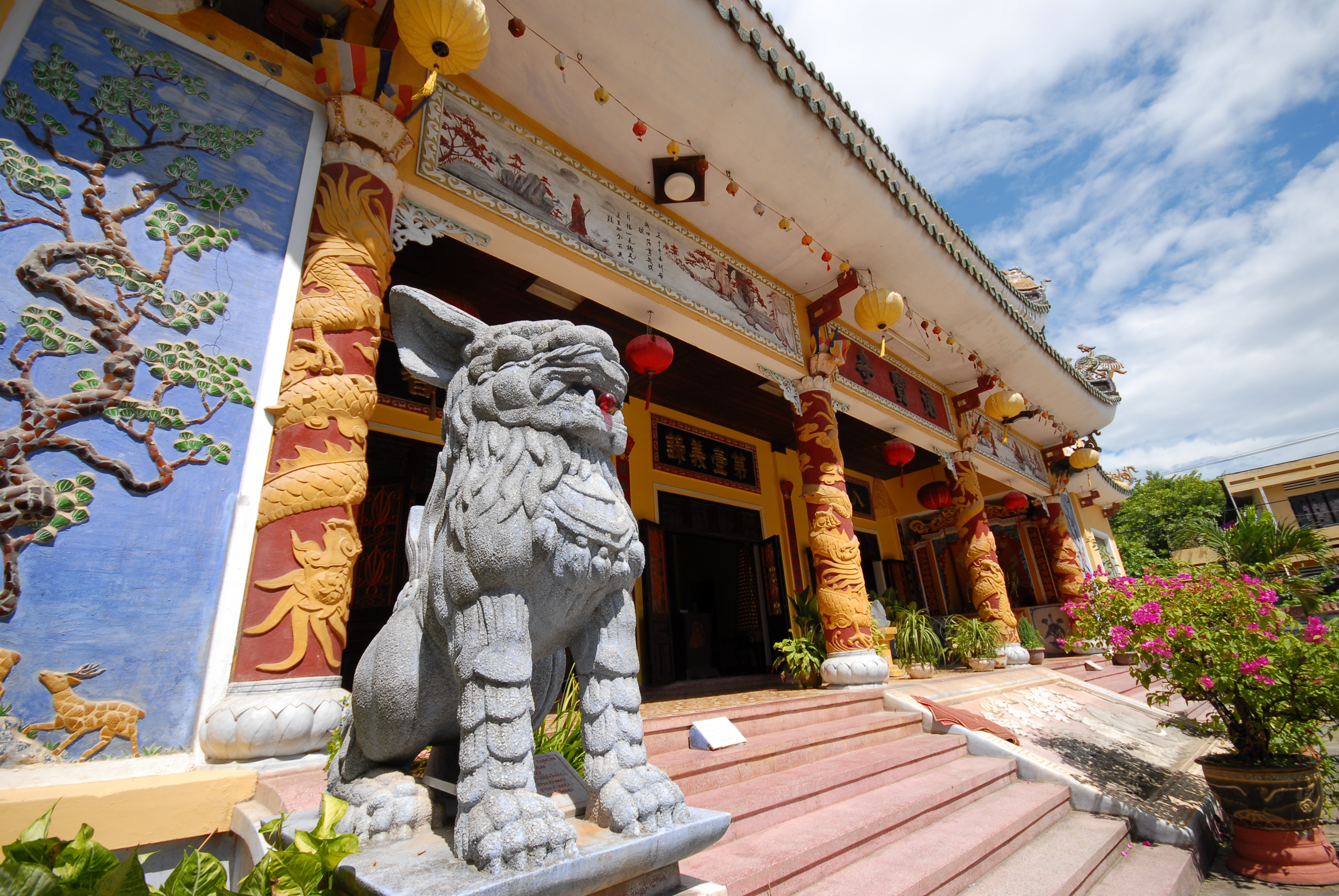 Hoi An Ancient Town, Quang Nam province, South Central Coast, Vietnam